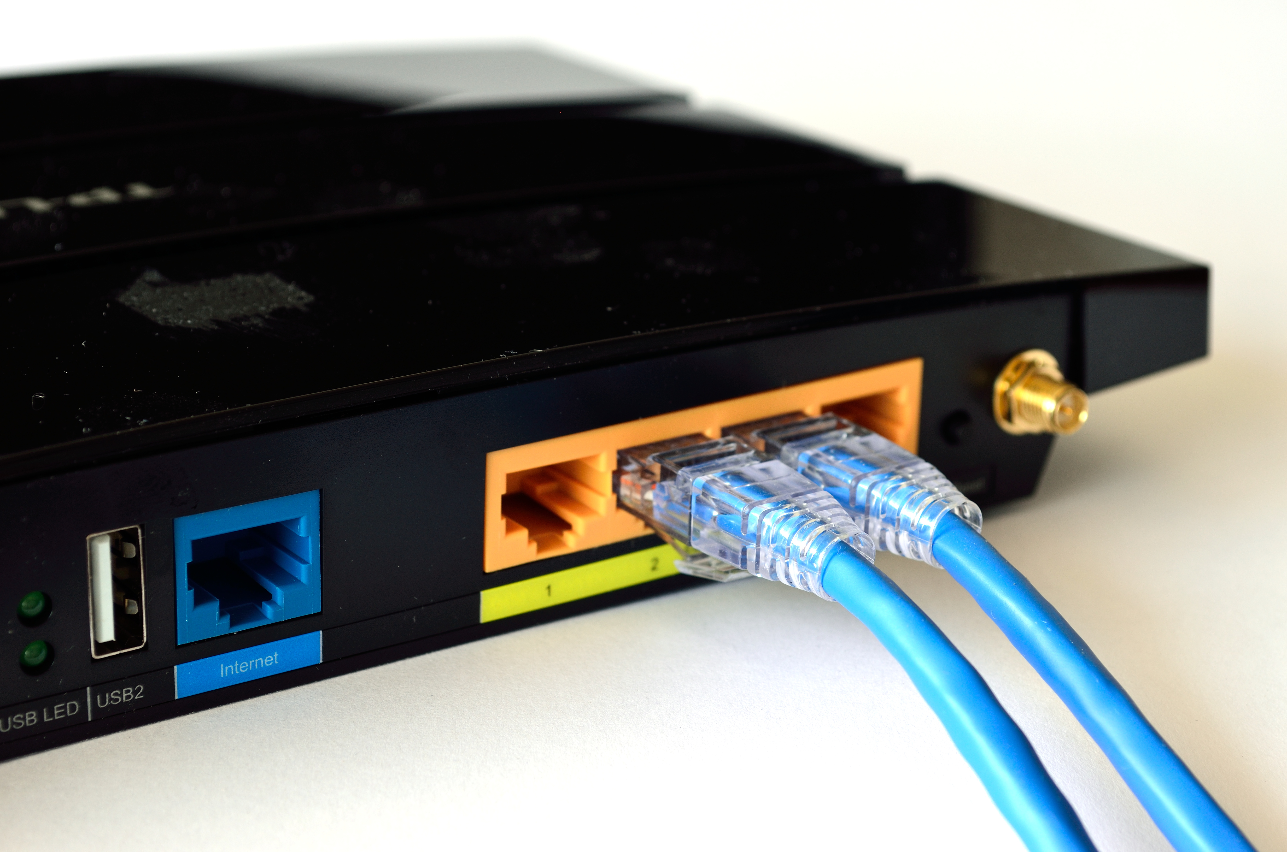 Closeup photo of a Wi-Fi router / residential gateway.